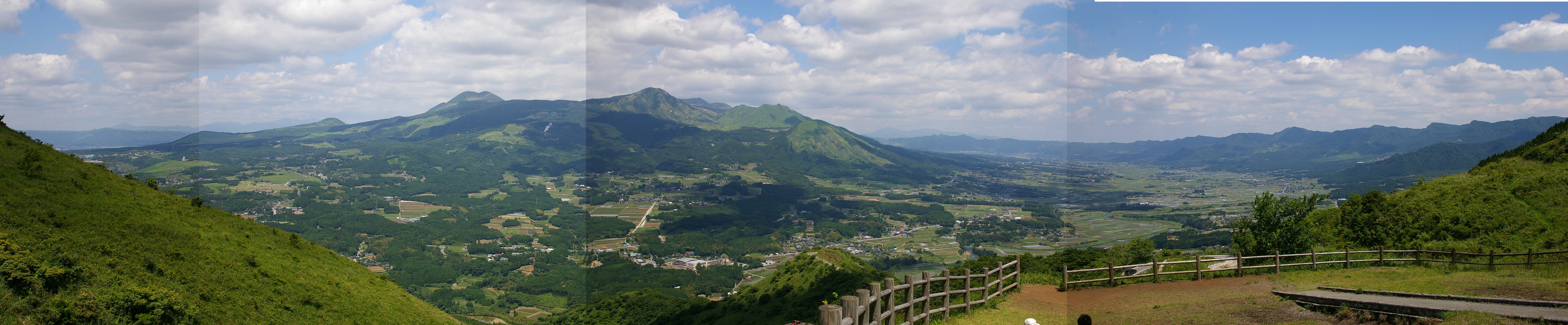 Panorama View from Tawarayama-toge sightseeing place, Kumamoto Pref., Japan.